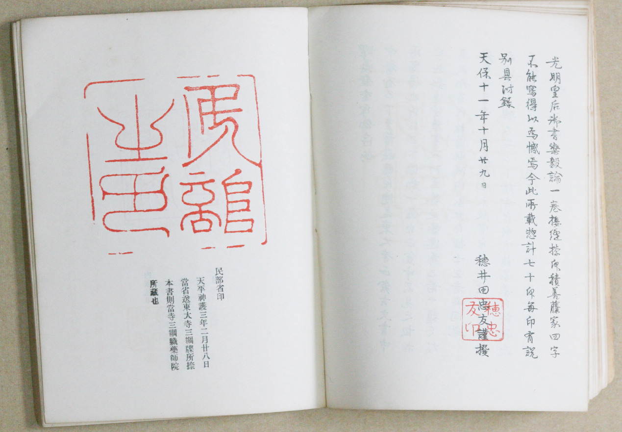 Japanese Seal book published in 1840